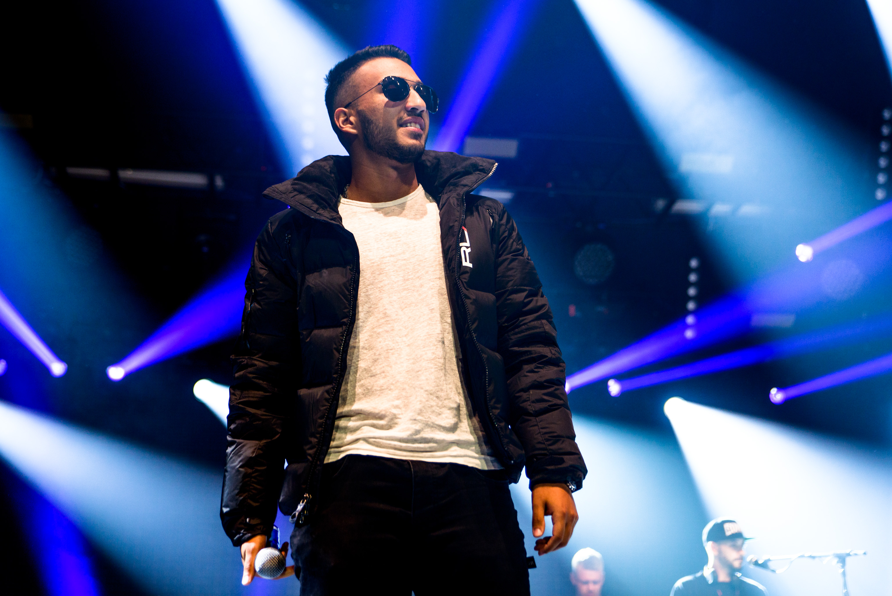 Seyed in Munich 2015